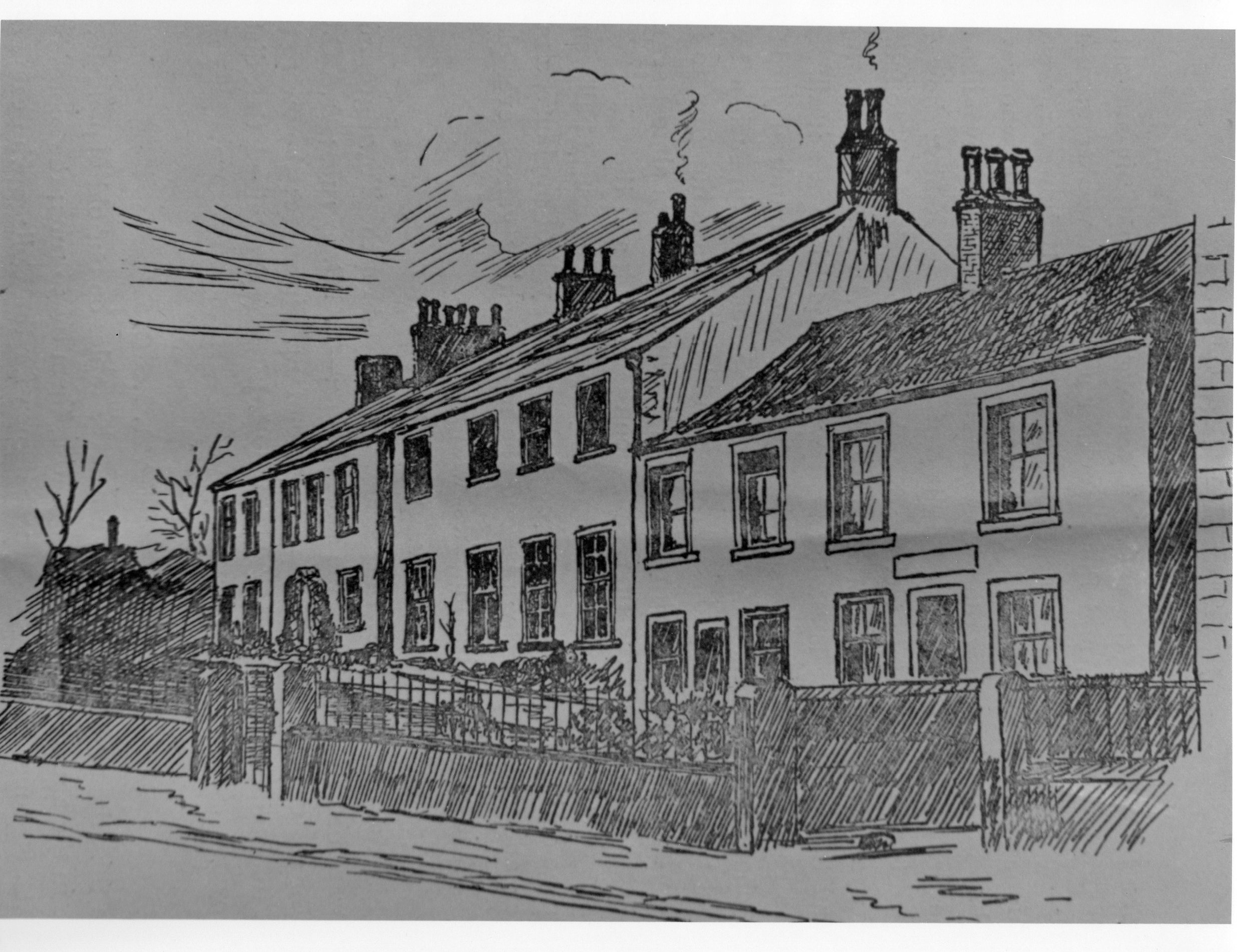 Photo of a sketch